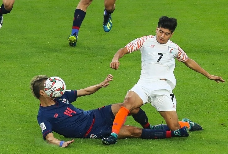 Anirudh Thapa against Thailand at 2019 AFC Asian Cup